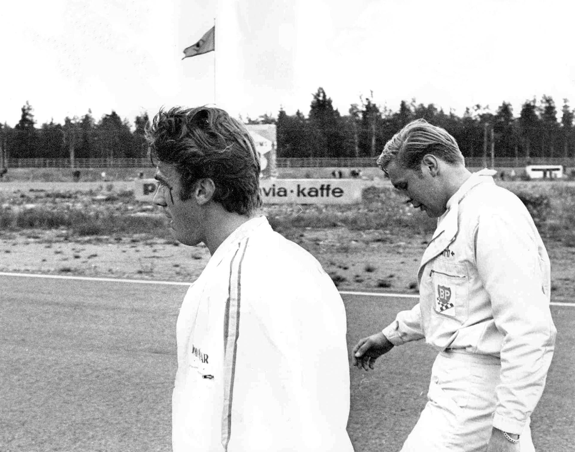 Photograph of the racers Freddy Kottulinsky (left) and Matti Lamminen after their Formula 3 vehicles had collided in Keimola track, Finland.